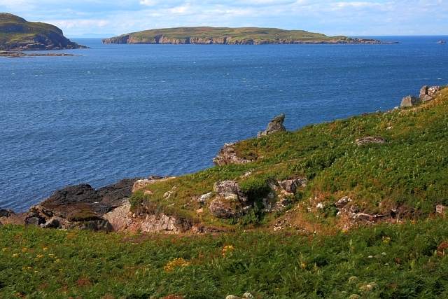 Eilean Mullagrach from Altandhu, near to Altandhu, Highland, Great Britain. Taken from the road junction to Reiff.